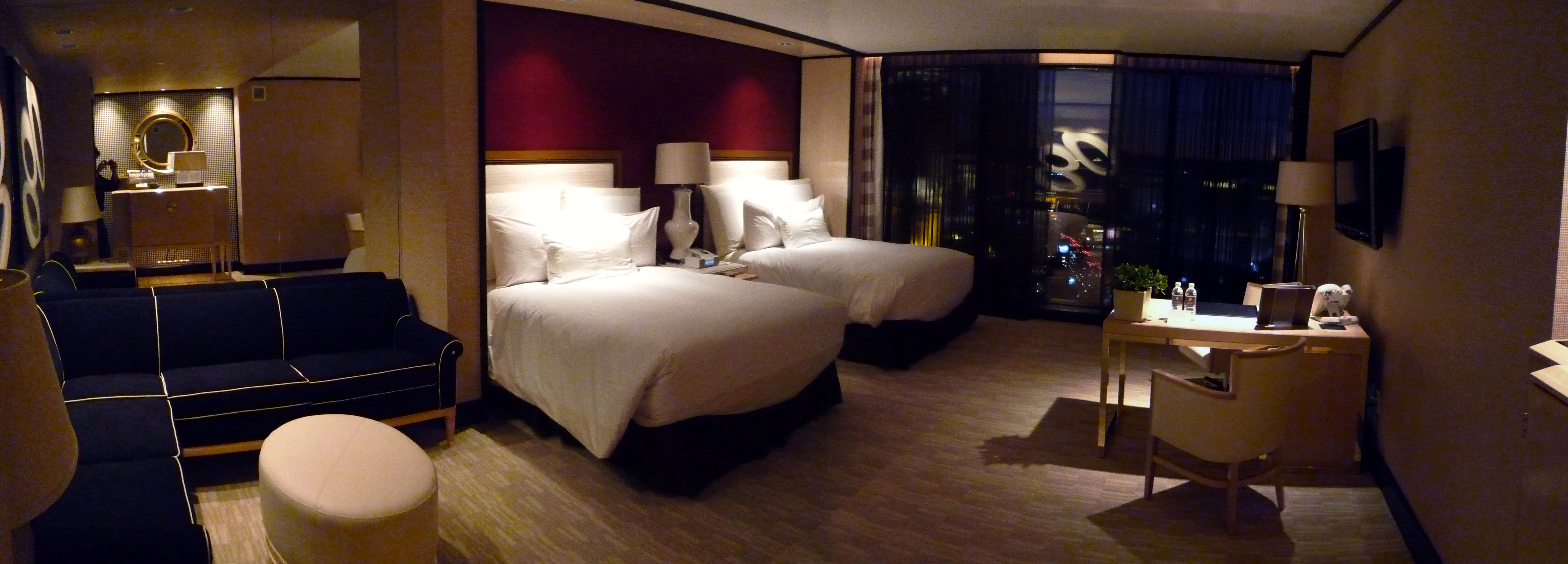 Standard room within the Encore Las Vegas.